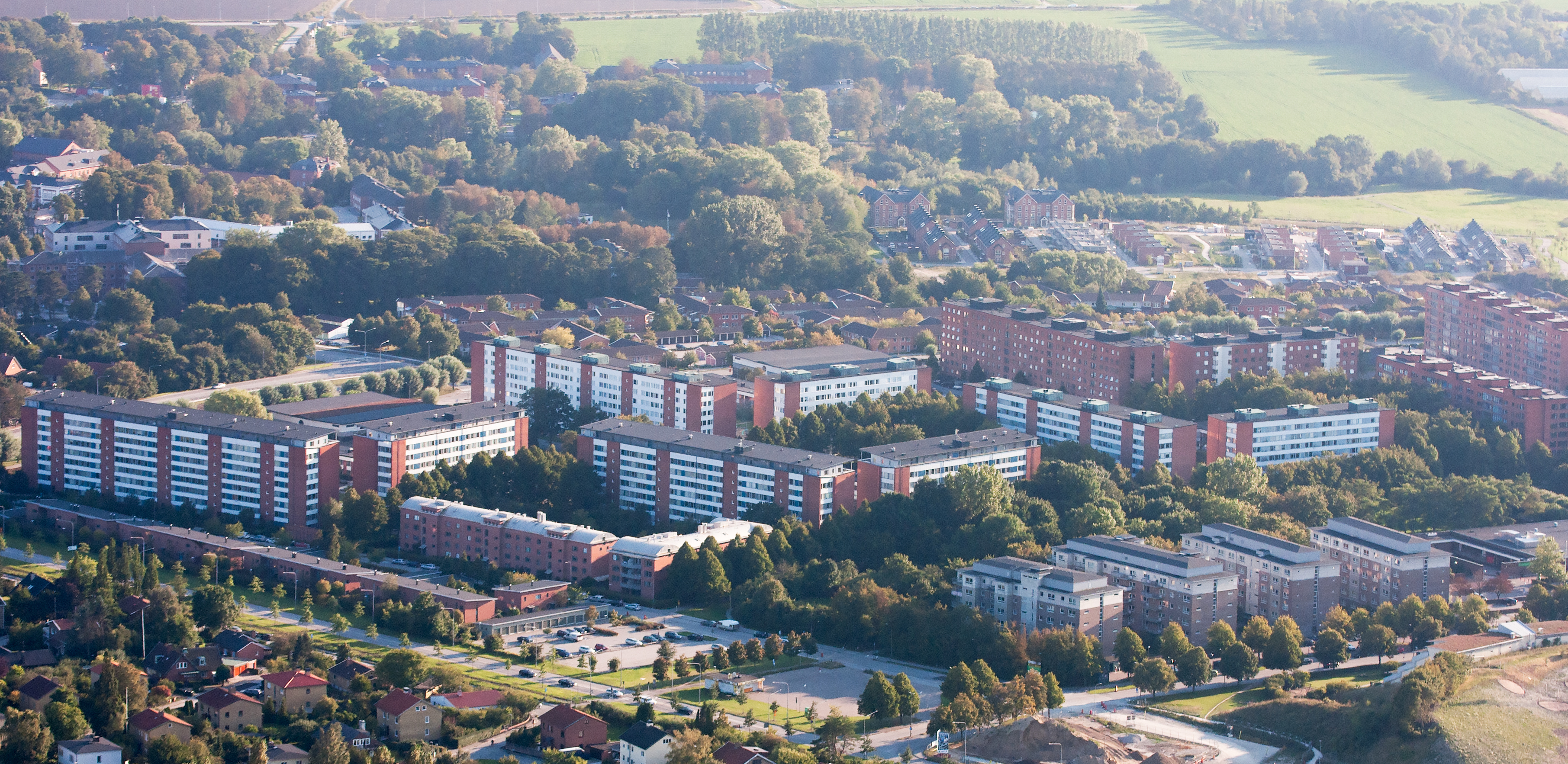 Klostergården neighbourhood in Lund, Sweden.